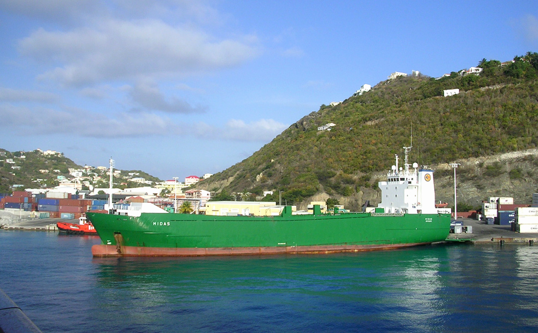 St. Martin has a small container port, as you would expect on a small island with about 75,000 people. There are a few villas overlooking Great Bay and the Philipsburg area at the top of the hill. The roll-on roll-off ("ro-ro") ship Midas is loading or unloading, with its stern facing the dock. It is operated by Godby Shipping, based in Åland, a group of Swedish speaking islands in Finland.